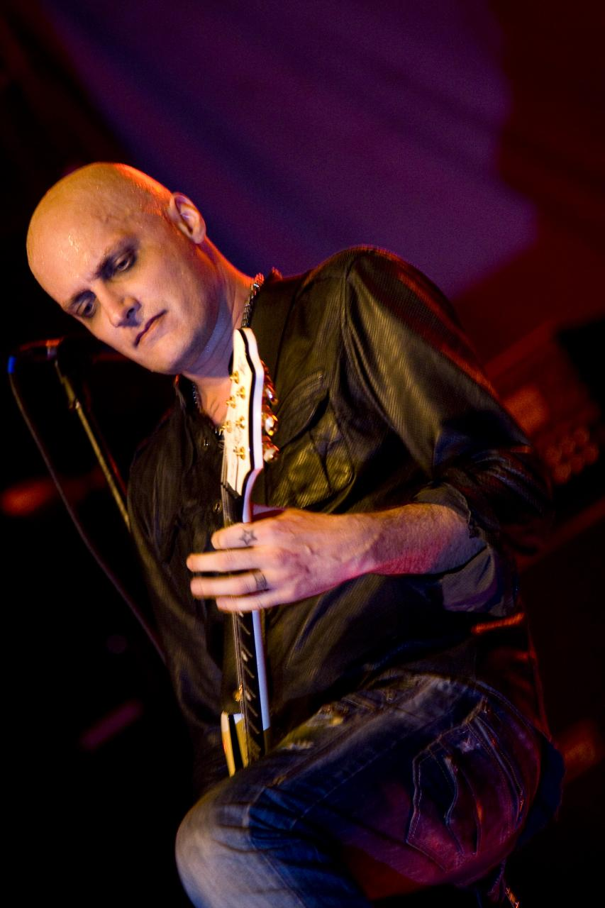 Johan Edlund, Tiamat (Carioca Club, São Paulo, Brasil)